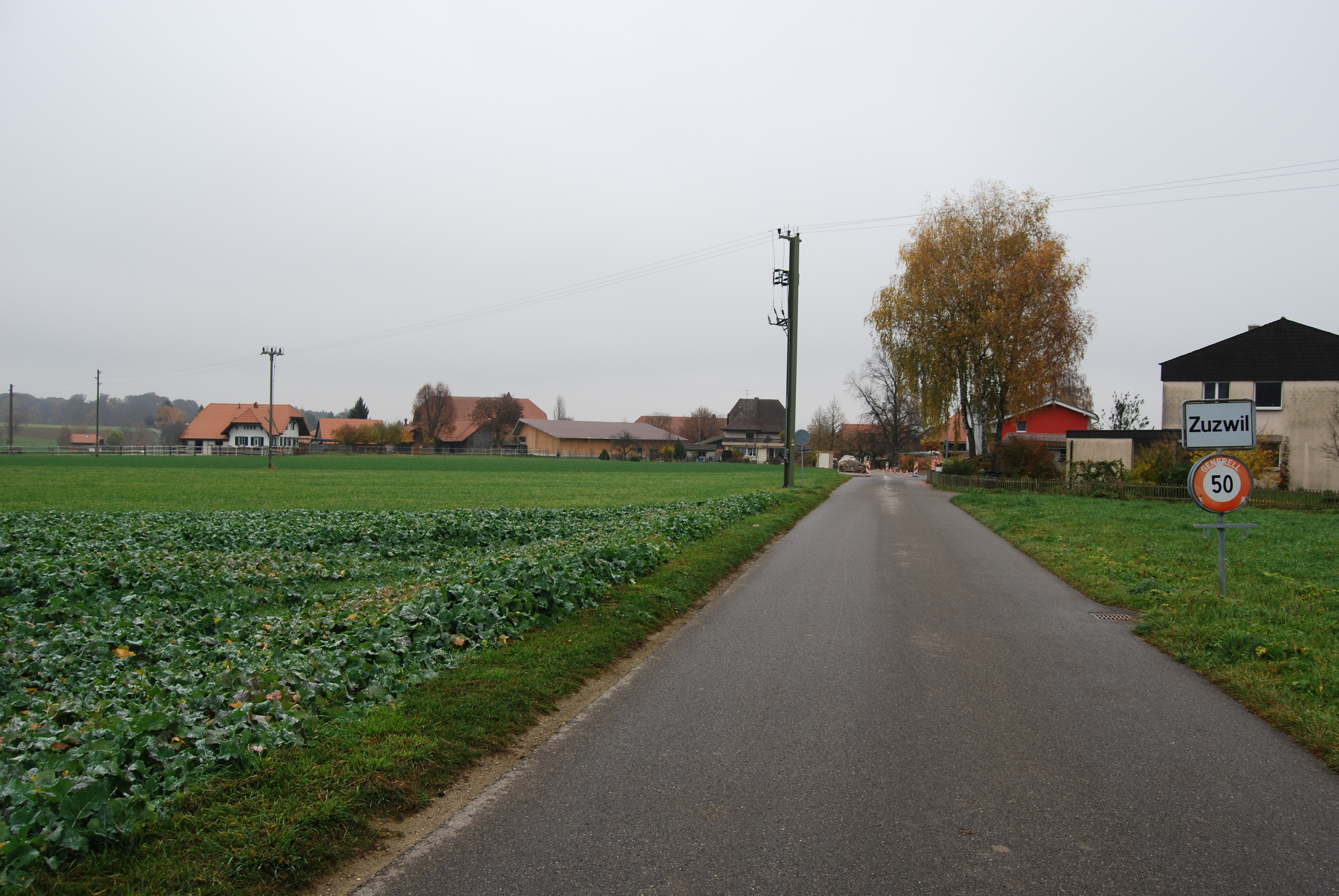 Zuzwil, canton of Bern, SwitzerlandEsperanto: Zuzwil, Kantono Berno, Svislando